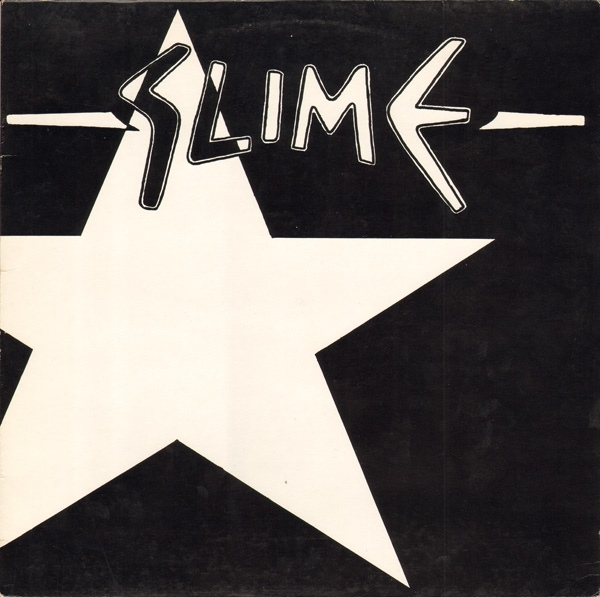 Cover of the 1981 album "Slime I", by the band Slime.